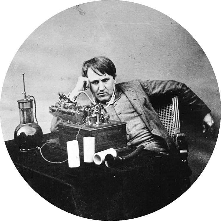 Thomas Edison with early version of phonograph.